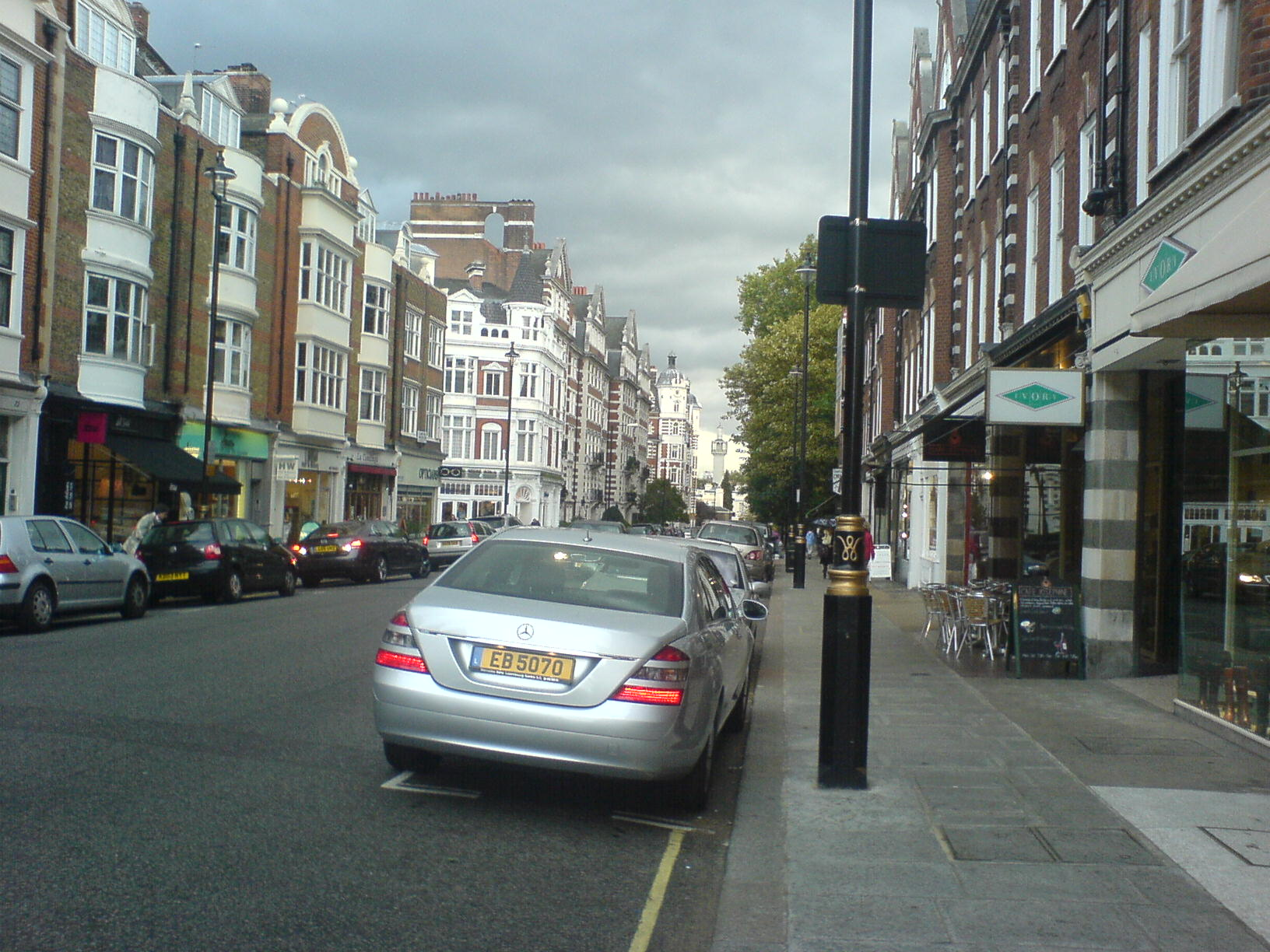 St. John's Wood high street. Taken by User:Xakaxunknownx of English Wikipedia in October 2006.